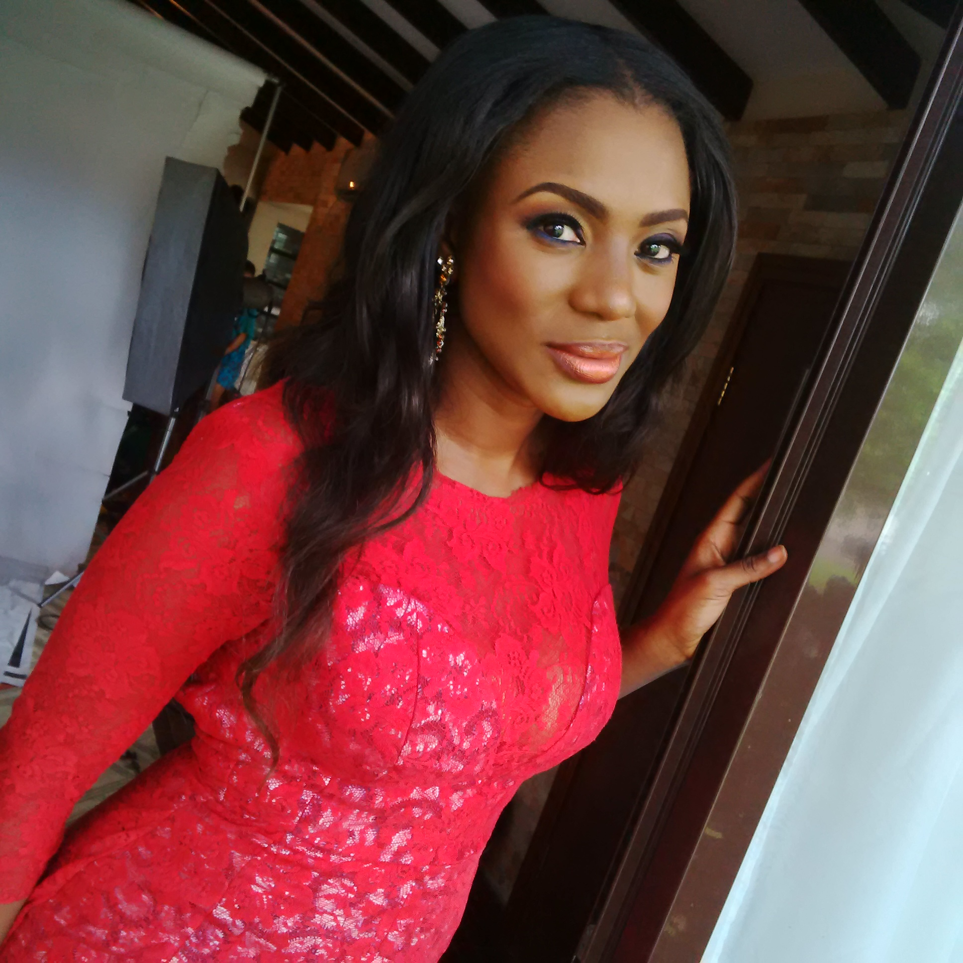 Kiki Omeili at a magazine shoot for Lekki Wives